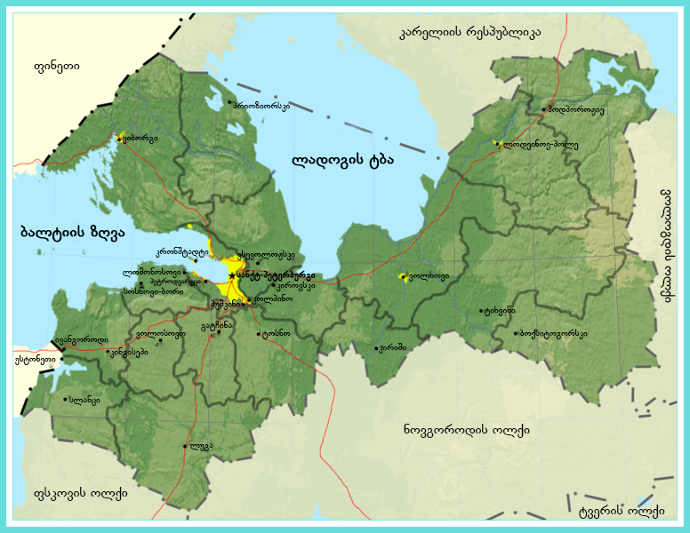 Map of Leningrad Oblast